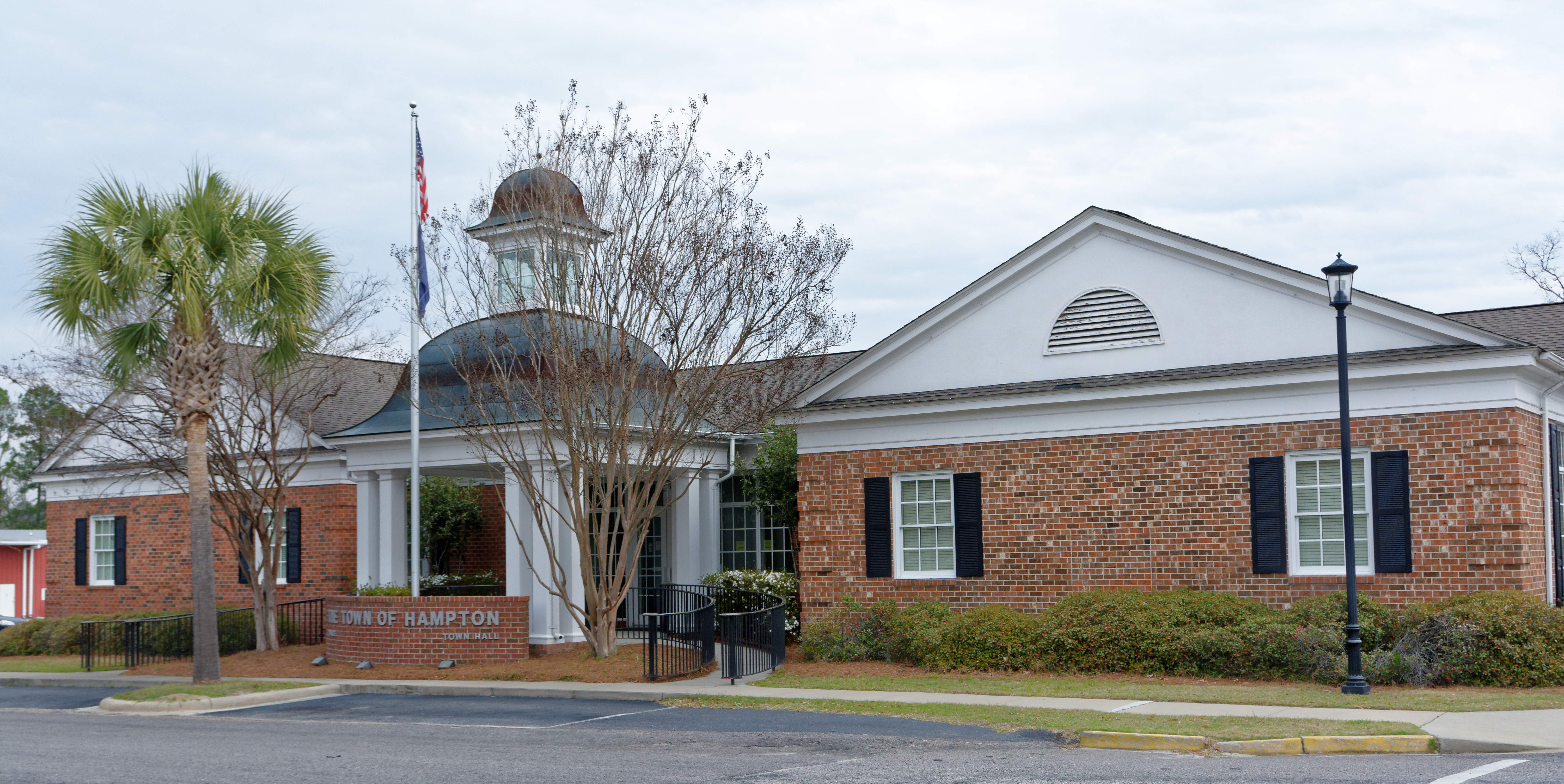 City hall in Hampton, South Carolina, U.s.